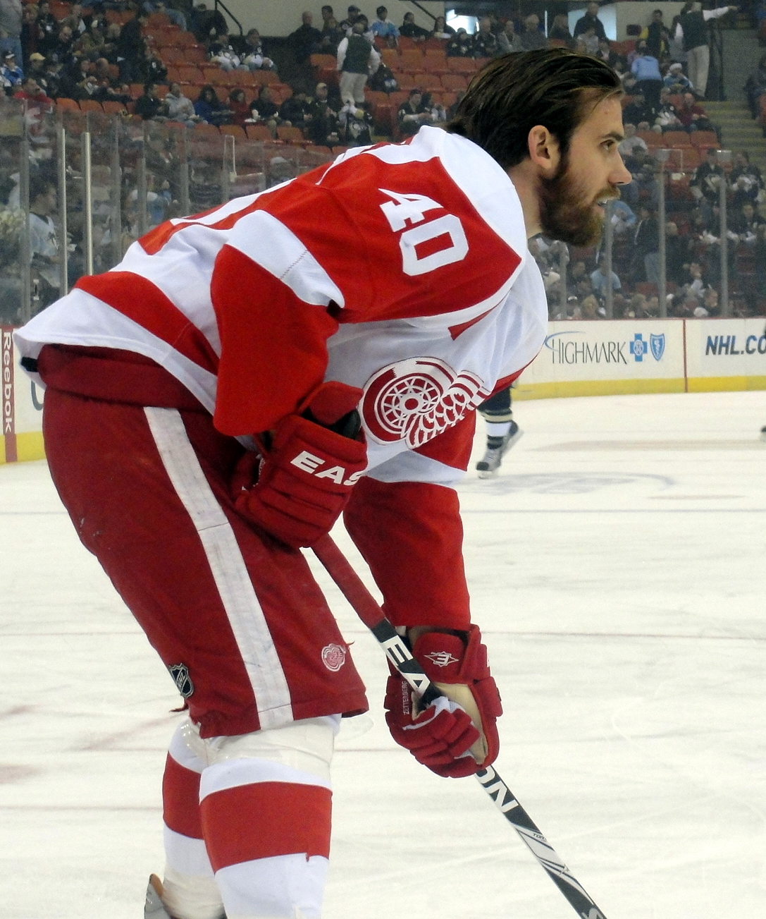 Henrik Zetterberg warms up before a January 31, 2010 game between the Detroit Red Wings and Pittsburgh Penguins at Mellon Arena in Pittsburgh, PA.